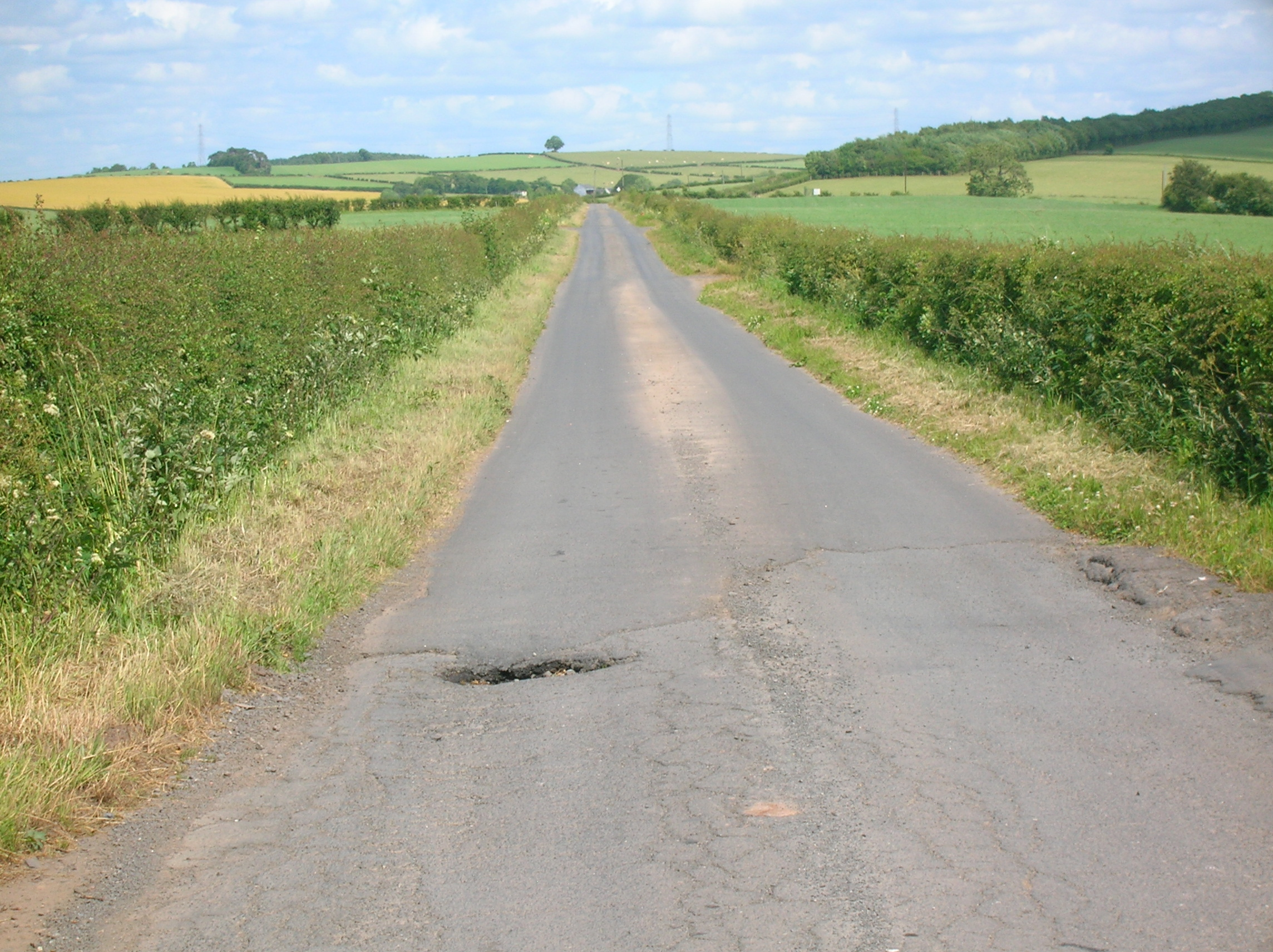 The Monk's Road to Mauchline at Fail, near Redrae Farm. South Ayrshire, Scotland.